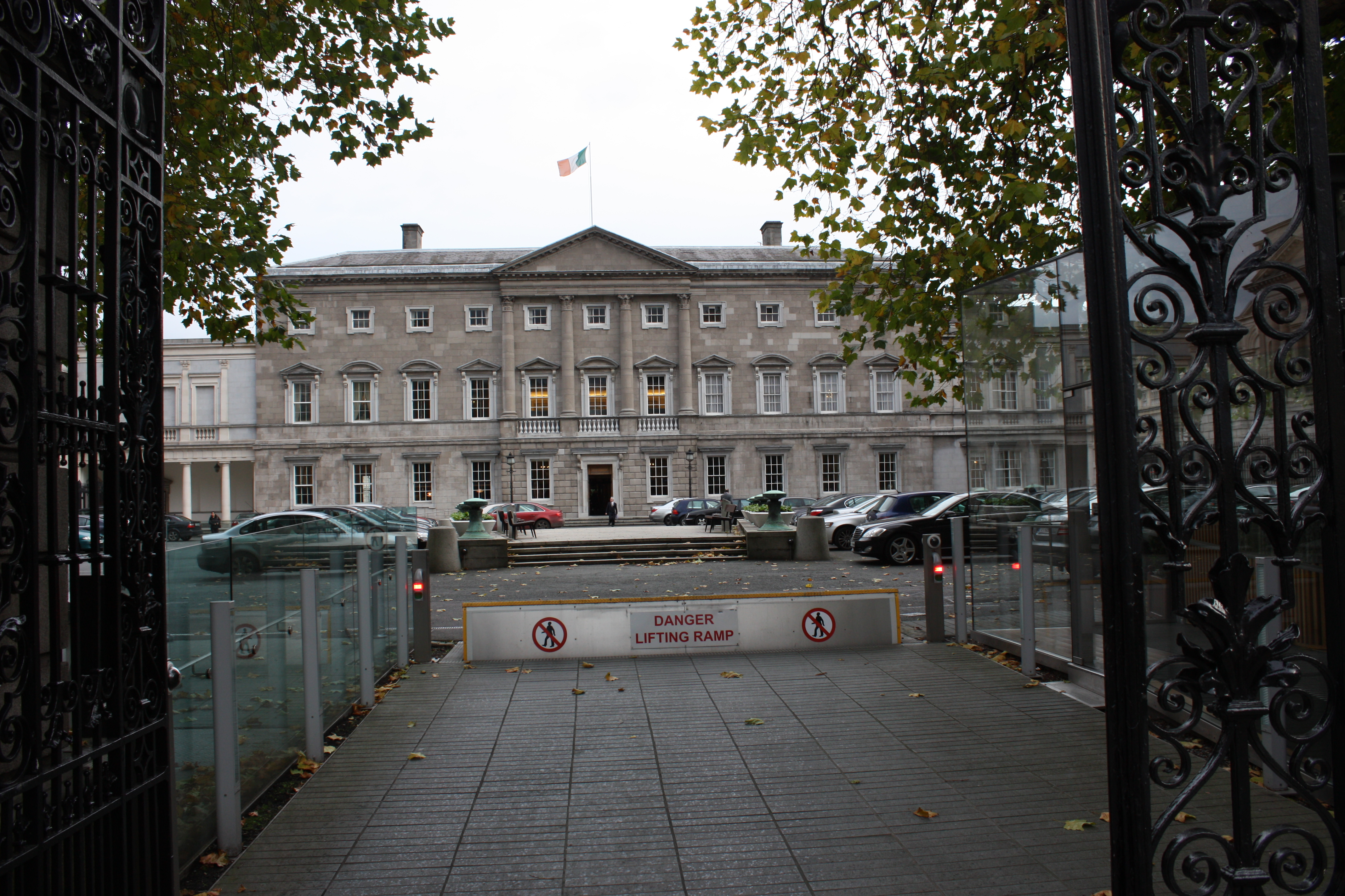 Leinster House, Kildare Street, Dublin, Republic of Ireland, October 2010